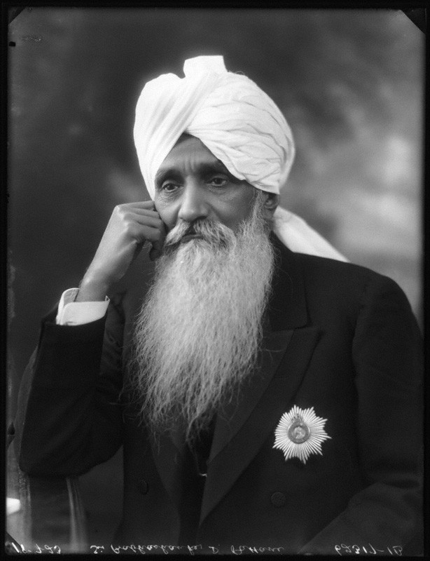 Sir Prabhashankar Pattani's portrait made on 18 July 1923. Taken with permission from National Portrait Gallery, London